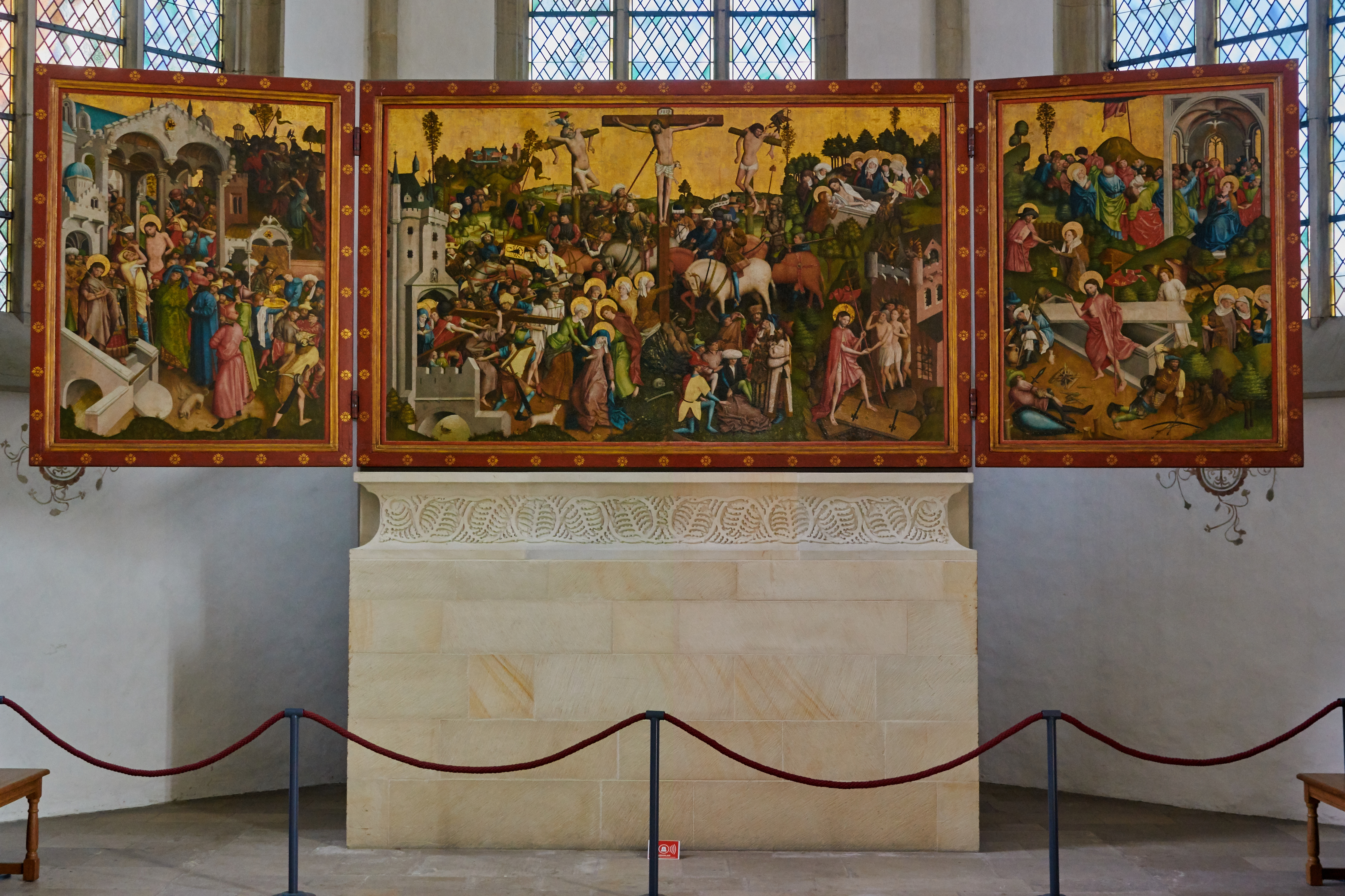 Gothic altar in Schöppingen, North Rhine-Westphalia, Germany. This is a photograph of an architectural monument.